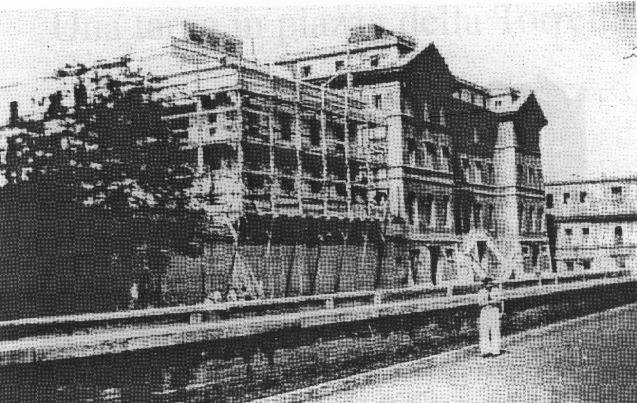 Via Vittorino da Feltre, Rione Monti, Rome